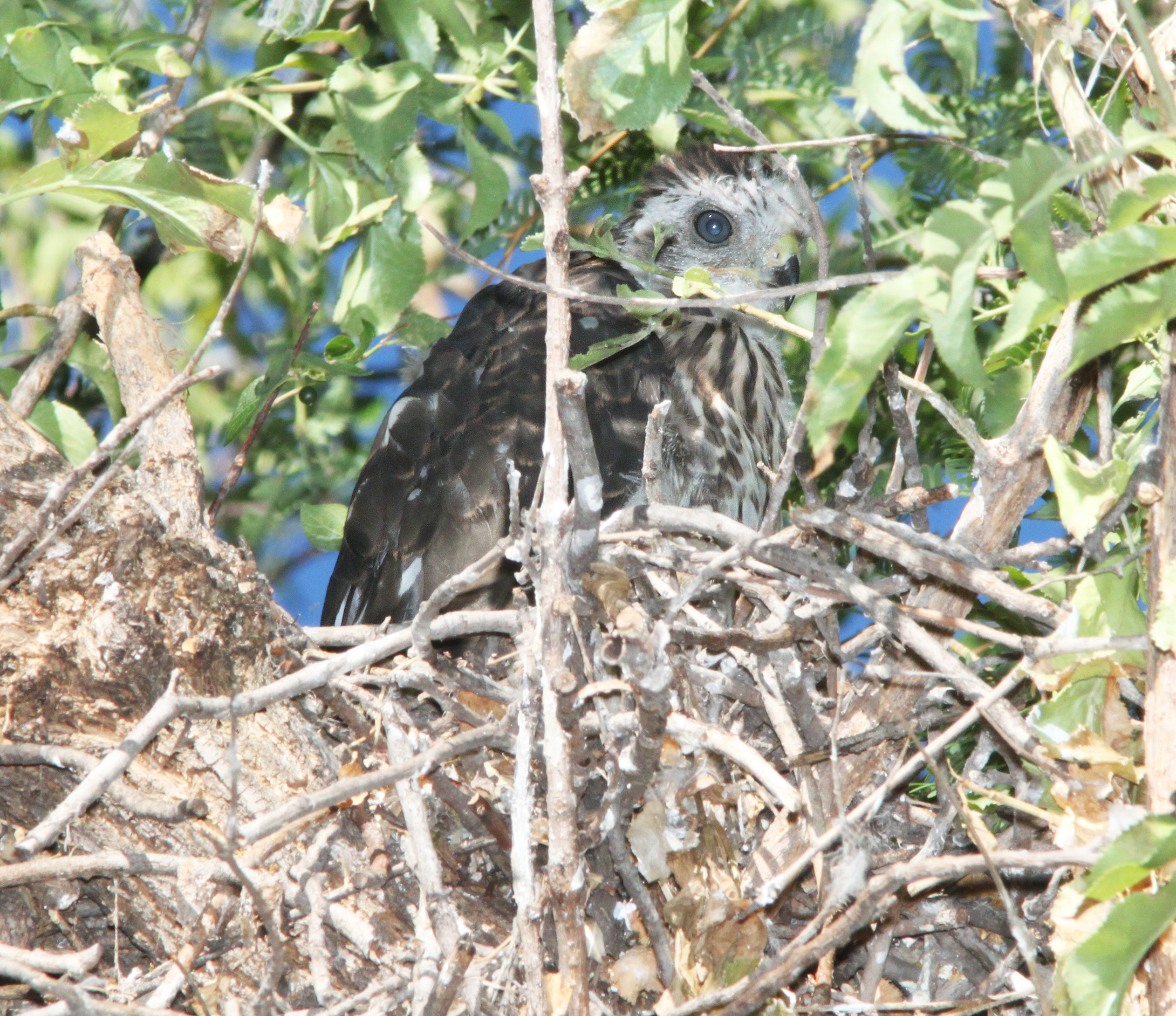 ARIZONA - BIRDS of SANTA CRUZ County